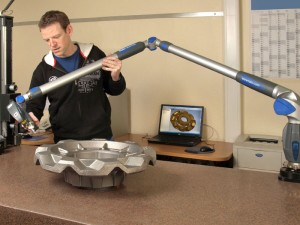 3D-Measuring